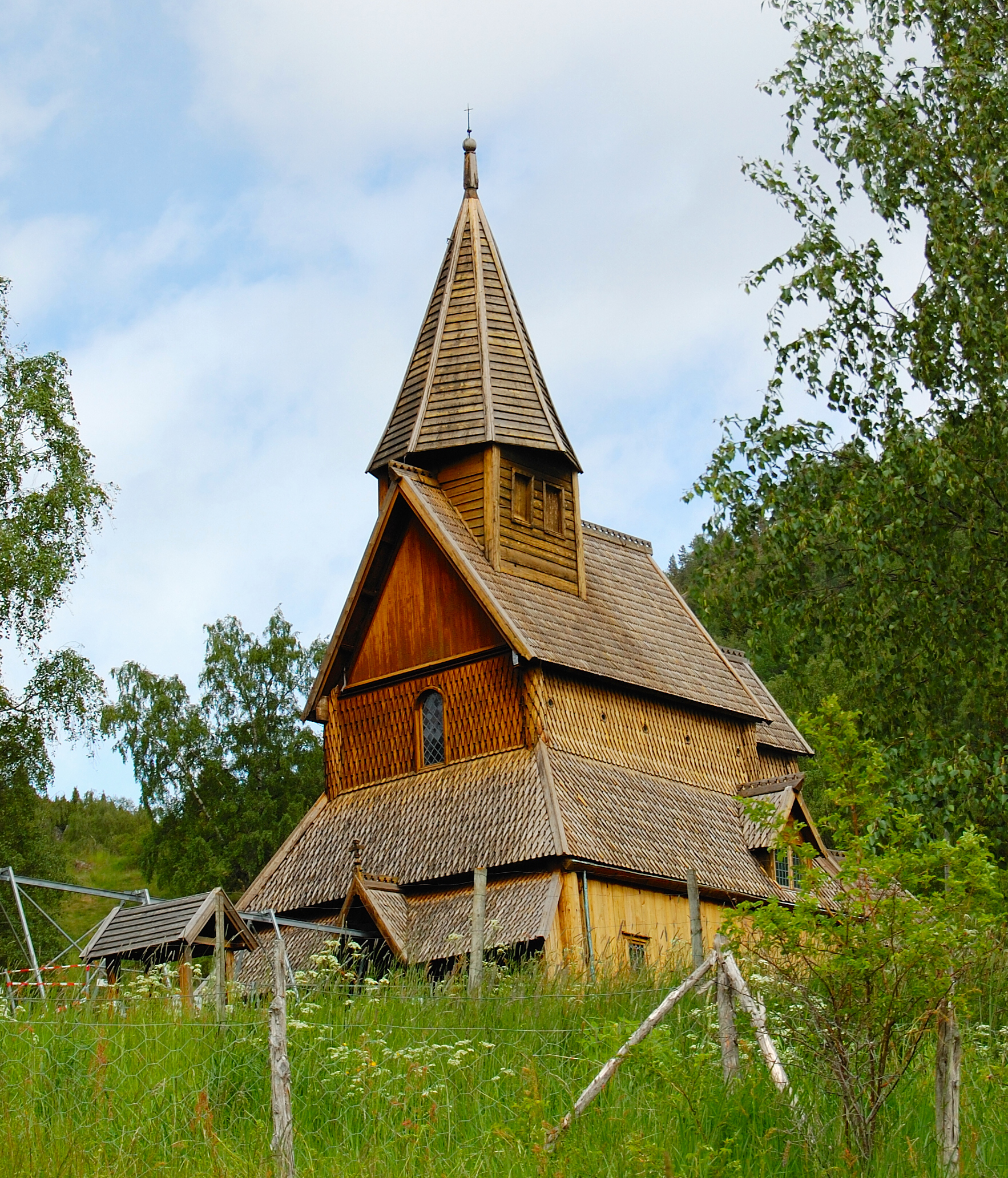 The Urnes stave church, a World heritage site in Sogn og Fjordane county, Norway.